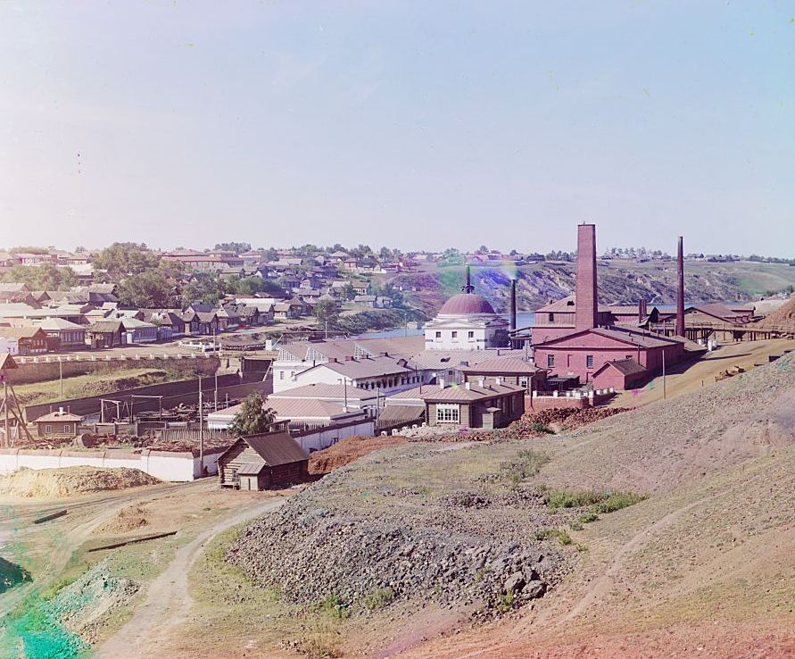 Original title: View of Kamenskii Cast Iron Smelting Factory (now Kamensk-Uralsky)